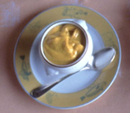 occitan sauce "rolha"